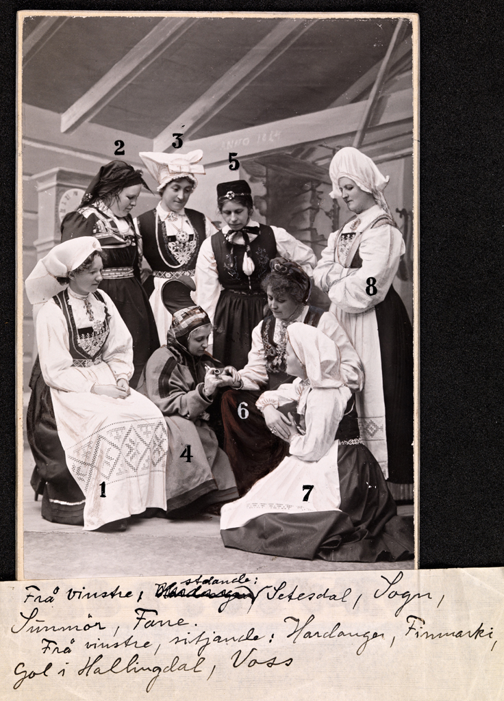 Tittel / Title: Frå vinstre, st.dande: Setesdal, Sogn, Sunnmør, Fane. Frå vinstre, sitjande: Hardanger, Finnmarki, Gol i Hallingdal, Voss. Motiv / Motif: Kabinettkort. Fotografiet har tilhørt Hulda Garborg. Fotograf / Photographer: ukjent Eier / Owner Institution: Nasjonalbiblioteket / National Library of Norway Lenke / Link: Bildesignatur / Image Number: blds_03012